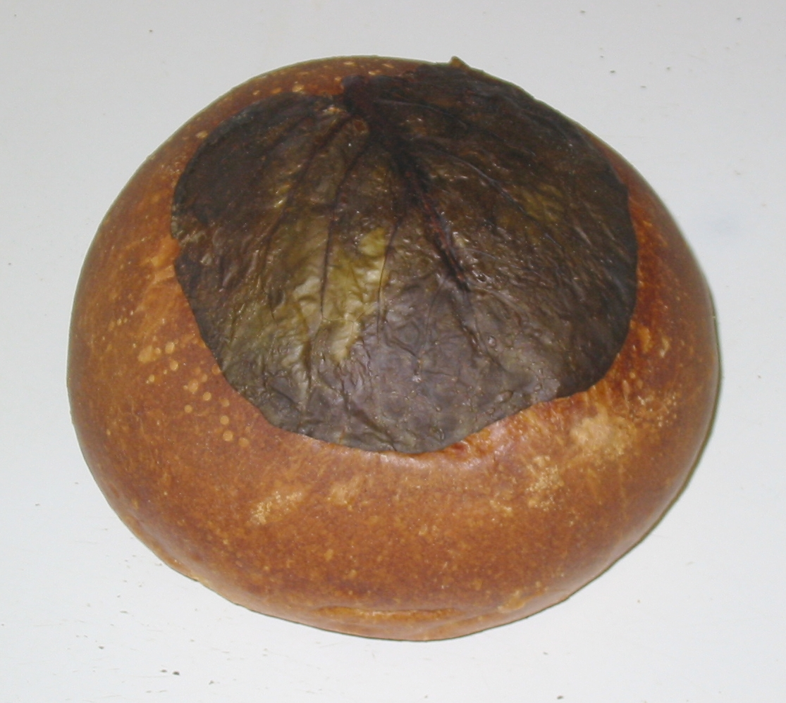 traditional Jersey cabbage loaf. The bread is baked between two cabbage leaves, giving a crusty bread with distinctive flavour.